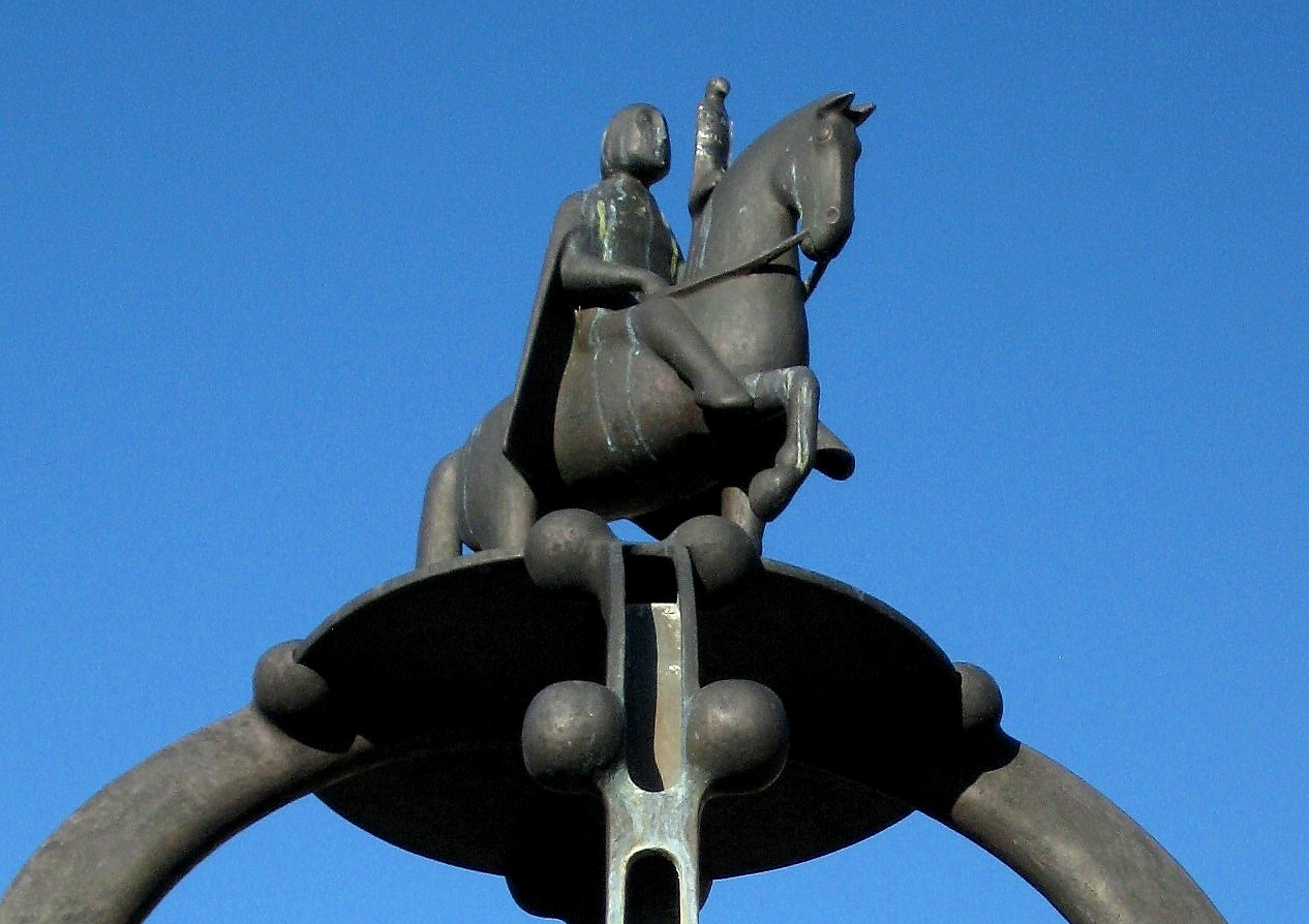 Widukind (Statue on top of Widukind Fountain in Enger/Germany)